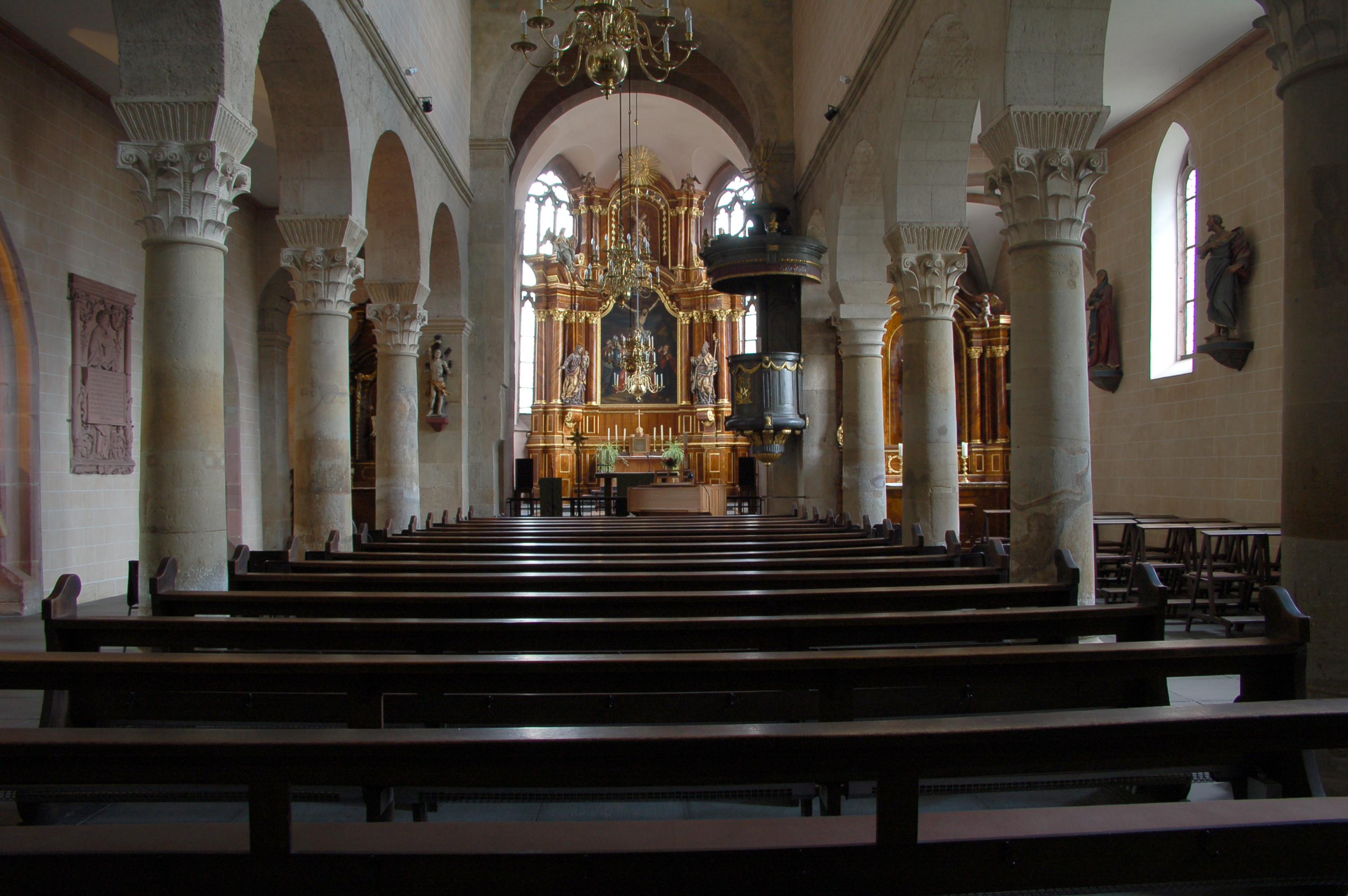 Nave of St.Justinus Church, Frankfurt-Höchst